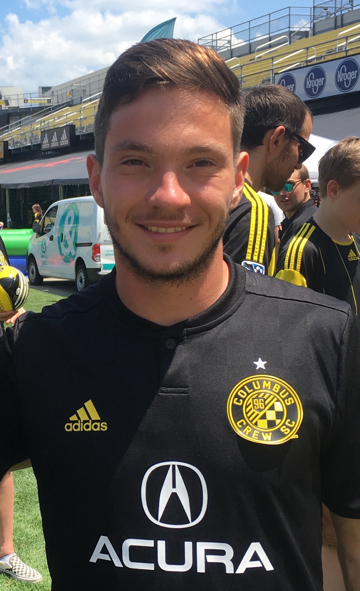 Picture of Luis Argudo at a Columbus Crew SC Meet the Team event in 2018.